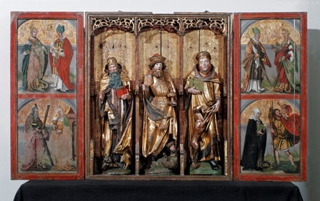 Old altar piece from Kvæfjord church, Norway. It is now stored in Museum of Cultural History, Oslo.